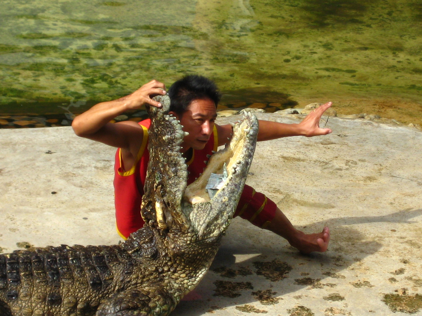 Thai man with his head in a crocodile mouth at Samutprakarn Crocodile Farm and Zoo in Bangkok, Thailand.